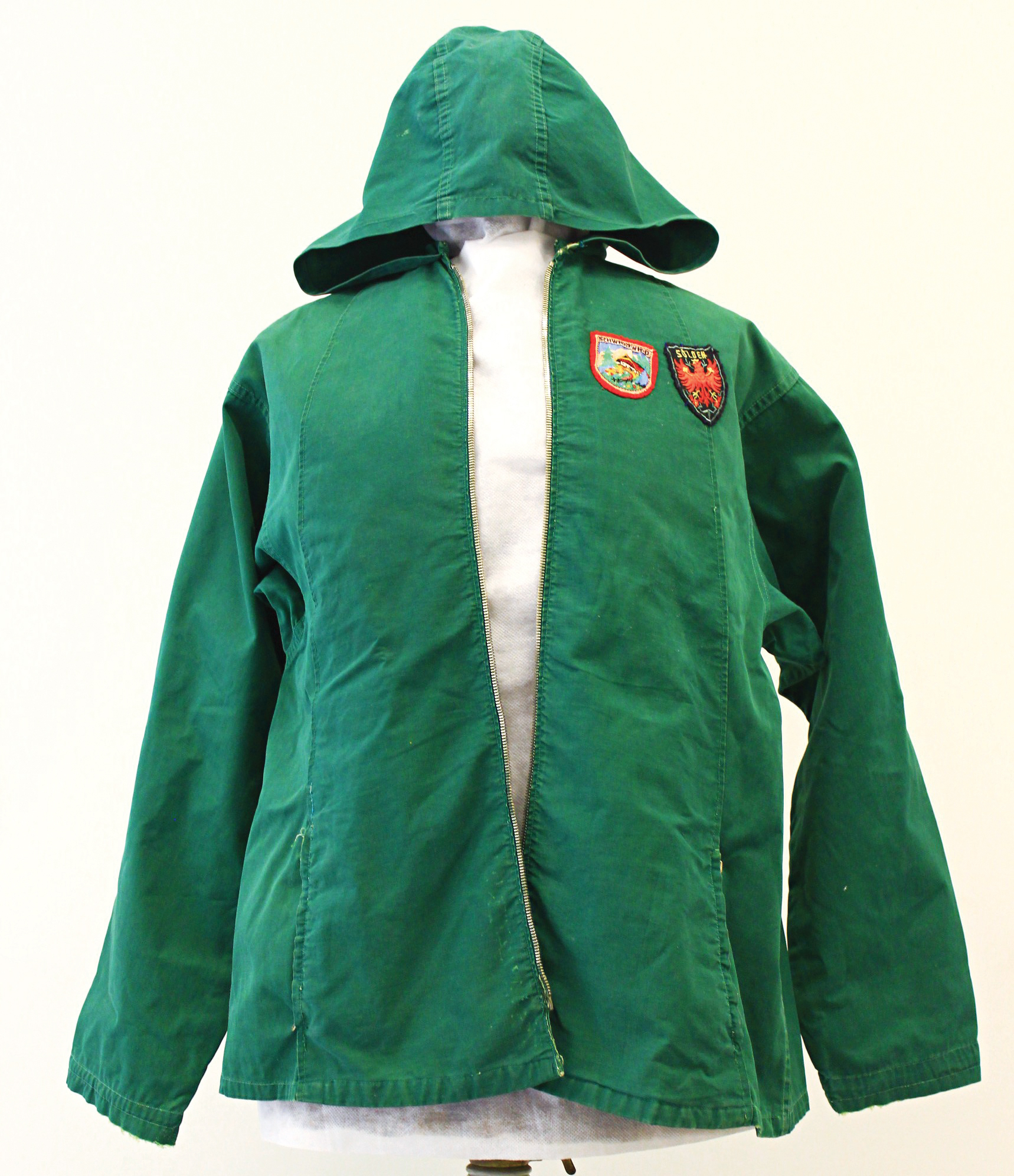 Anorak jacket. Fabric, metal. Germany or United States, 1949-1950. Donor: Eva Maria Augusta Boeckh Haesbish. Collection of the Immigration Museum of São Paulo. This type of jacket is known as “anorak”. The donor acquired it between 1949 and 1950 in the city of Heidelberg, in Germany, where she lived. It was a military jacket from the United States, which had its troops quartered in her city during World War II. The jacket has been dyed and it has originated two other jackets, which the donor divided with a friend. She used hers (previously the lining part) to travel from her city to Barcelona, riding a bicycle. The donor used it until the 1990s.